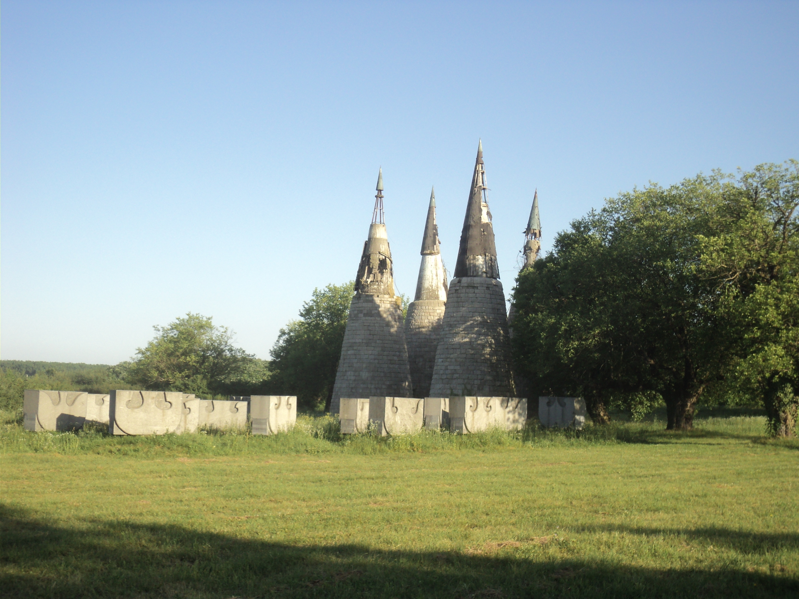 Dudik Memorial Park in Vukovar, a place where Ustashe regime killed around 400 Serb civilians and antifascists between 1941 and 1945 .